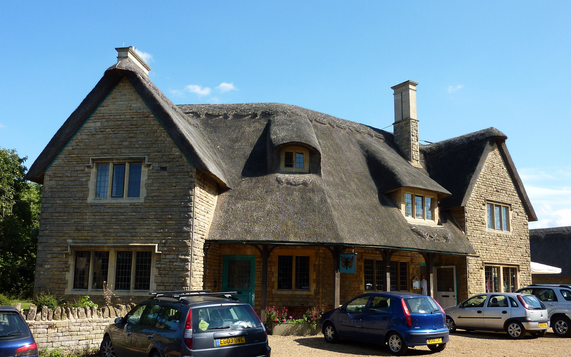 Chequered Skipper, Ashton, East Northamptonshire